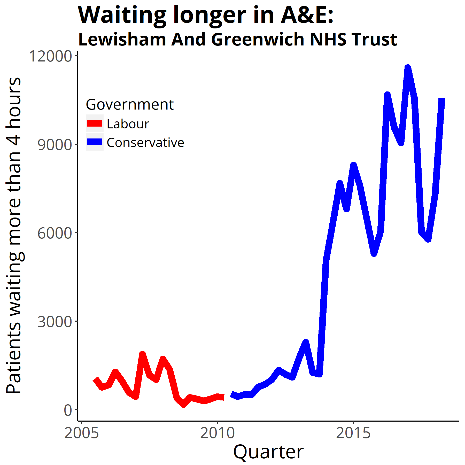 Four-hour target in the emergency department quarterly figures from NHS England Data from